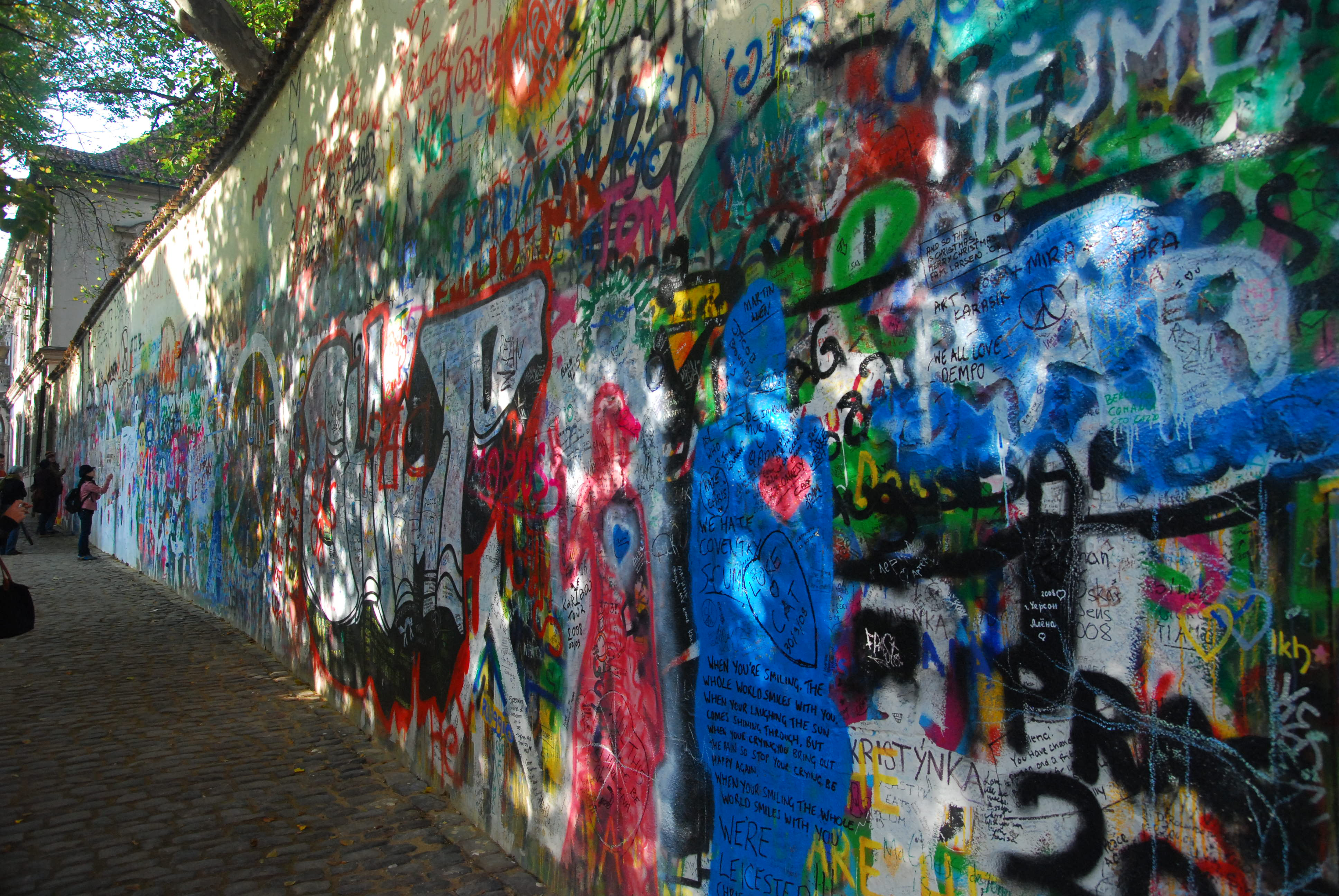 John Lennon Wall, Velkoprevorske namesti, Prague, Czech Republic